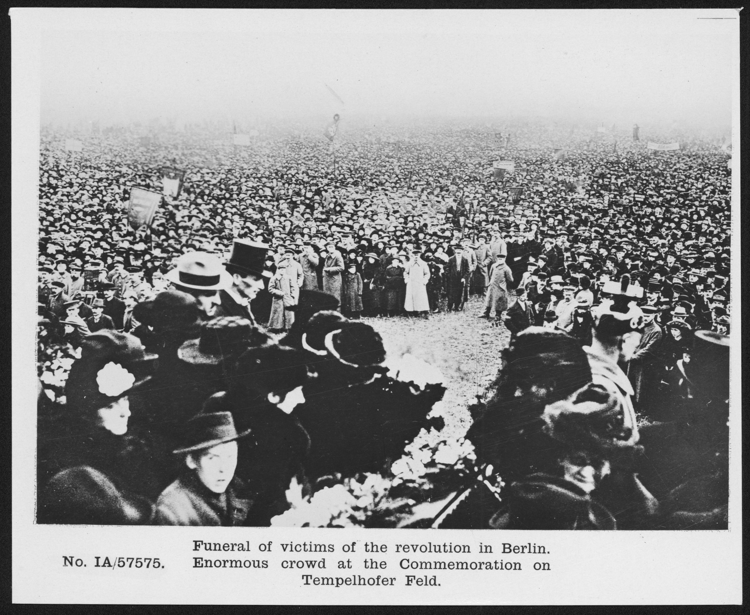 Funeral of victims of the revolution, Berlin, November 1918. A crowd of several thousand people gathered, according to the caption, on Tempelhofer Feld in Berlin. The crowd includes German military and civilian men, women and children. This was apparently taken during the funeral of the fifteen people who died during the Berlin Revolution on 9 November, 1918. In October 1918 the German government fell in the face of their military defeats and the increasing starvation of civilians due to the blockade. On 9 November a relatively small revolution in Berlin led to the declaration of the German Republic and the abdication of the Kaiser. [Original reads: 'No. IA/57575. Funeral of victims of the revolution in Berlin. Enormous crowd at the Commemoration on Tempelhofer Feld.']